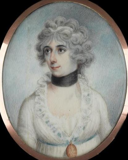 Portrait of unknown female formerly misattributed as Horatia Nelson. Royal Museums Greenwich have stated, "we no longer think the woman in white is Horatia. She has some likeness to Nelson, but Horatia did not have such a marked resemblance from other portraits of her in youth (we have a bust by Christopher Prosperi showing her as a child and an oil portrait of her in early teens) Where this identification started is not clear: the provenance of the item stops with its exhibition in 1889 when in the hands of a Bond Street dealer and the only link with the Nelson-Ward family is that they had a copy of made, probably at that time and relying on his identification of it, not theirs. There is, so far, no evidence it was ever in Nelson-Ward family possession (or other branches of the Nelson family), which is the obvious place to have expected to find it, or at least information linking it to them - but there is none."